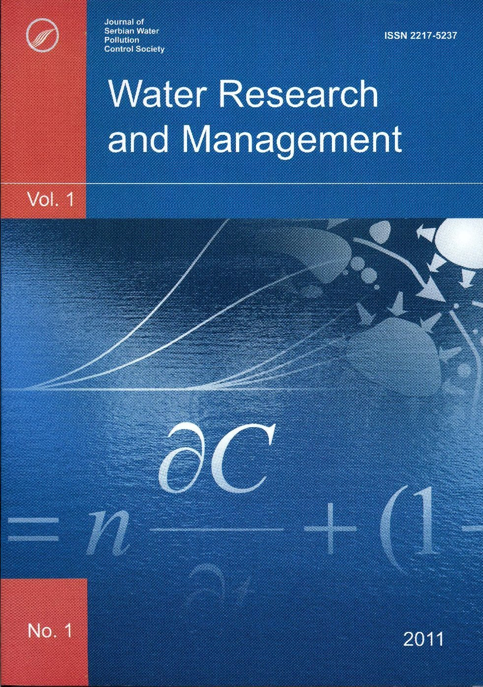 Water Research and Management - cover page of the first number